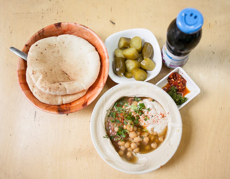 homus 1200